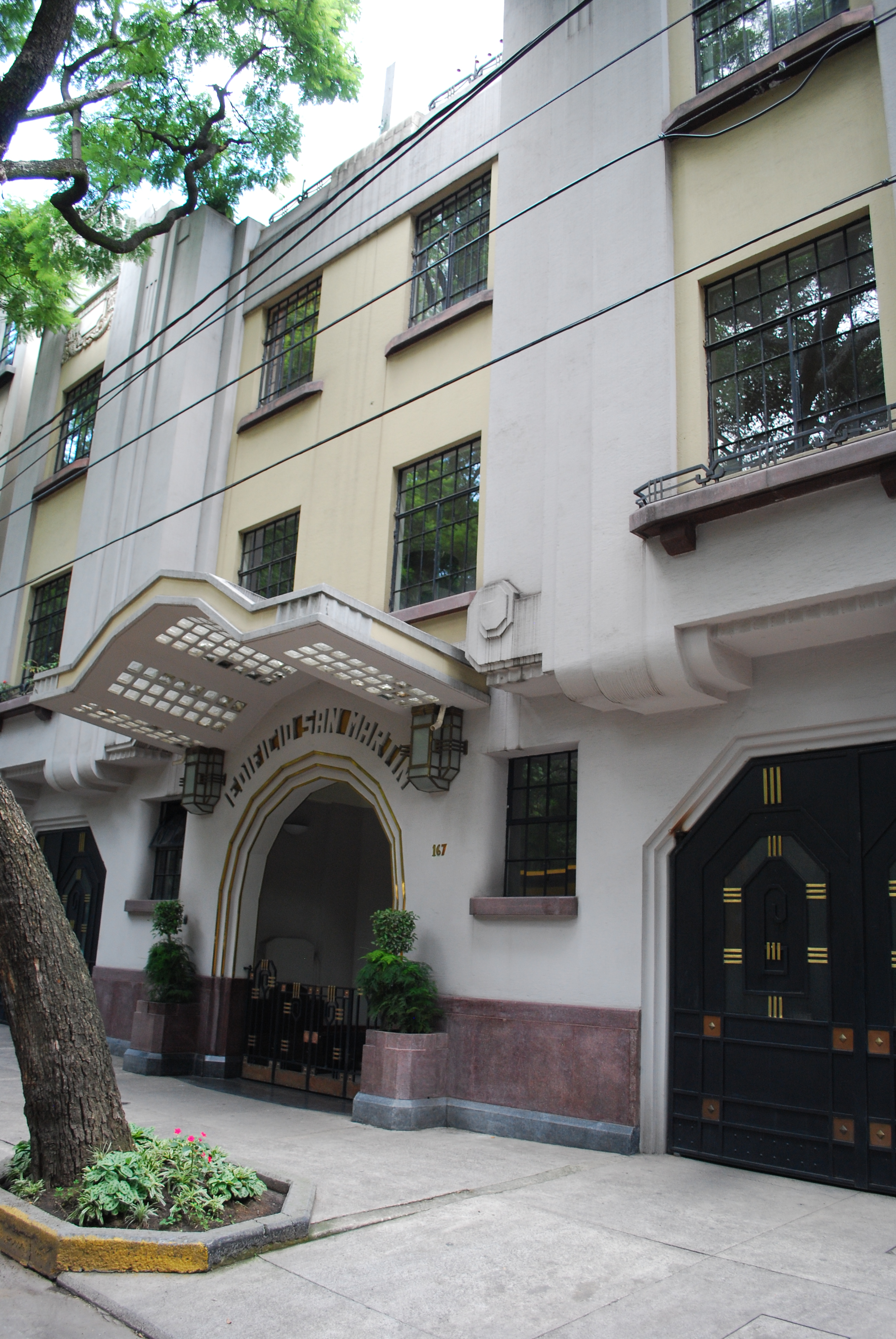 Edificio San Martin in Colonia Hipodromo in Mexico City